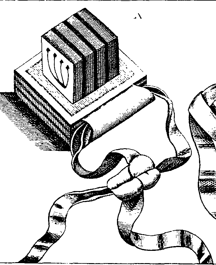 Fleuron from book: A succinct account, of the rites, and ceremonies, of the Jews, as observed by them, in their different dispertions, throughout the world, at this Present Time. In which, their Religious Principles, and Tenets, are Clearly Explained: Particularly, their Doctrine of the Ressurrection, Predestination, and Freewill: and the Opinion of Doctor Prideaux Concerning those Tenets, fully Investigated, Duly Considered, and Clearly Confuted. Also an Account of the Jewish Calendar, To which is Added, A Faithful and Impartial Account of the Mishna, and the Teachers thereof, in their Respective Ages, till the time of Rabbi Judah Hakkodosh, who Compiled the Mishna. With a chronological summary, Of Several Remarkable things, Relating to the People of the Jews, from the Most Authentic Records. By David Levi.